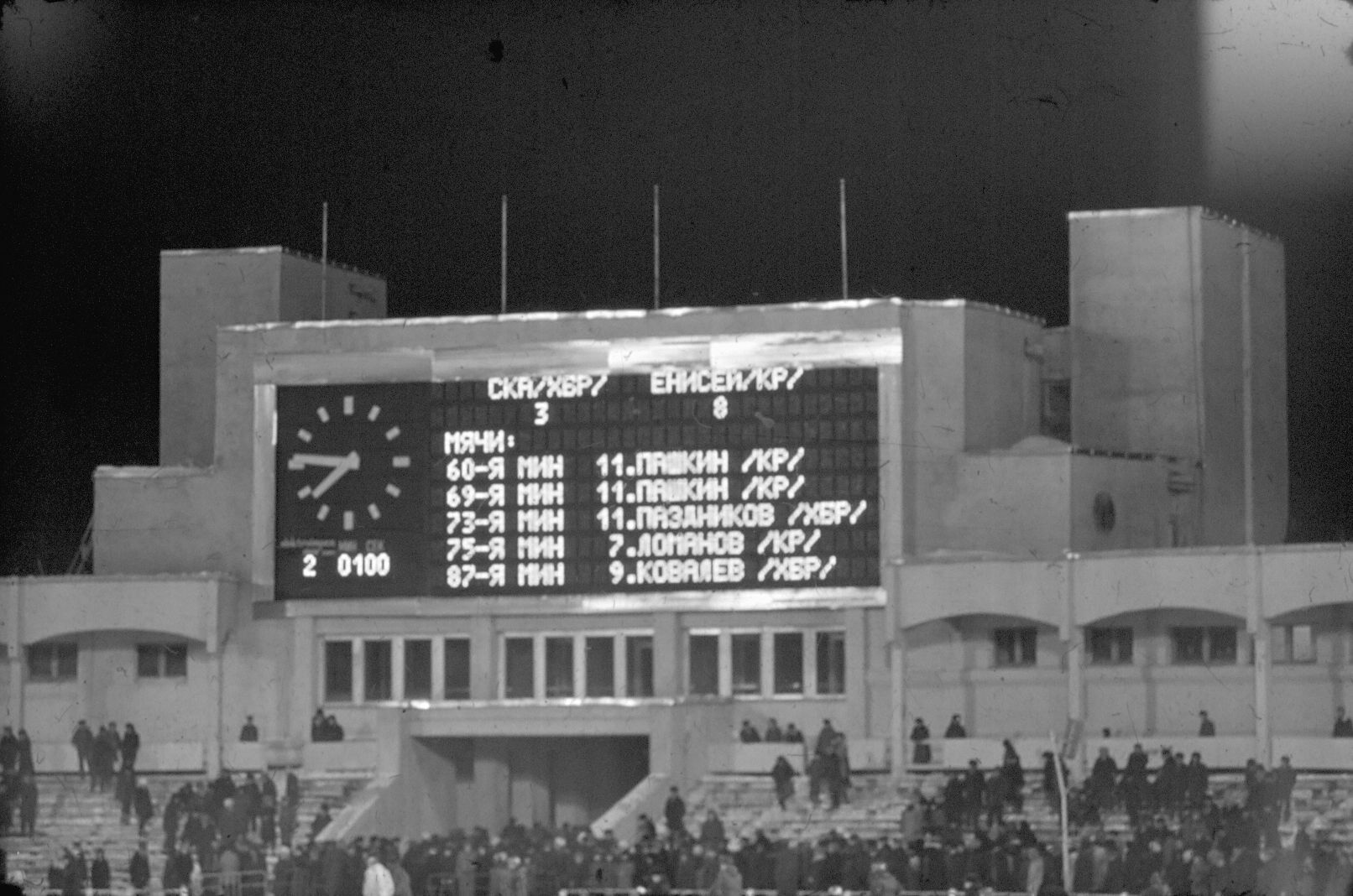 Чемпионат СССР, СКА Хабаровск - Енисей Красноярск, 1982 год.